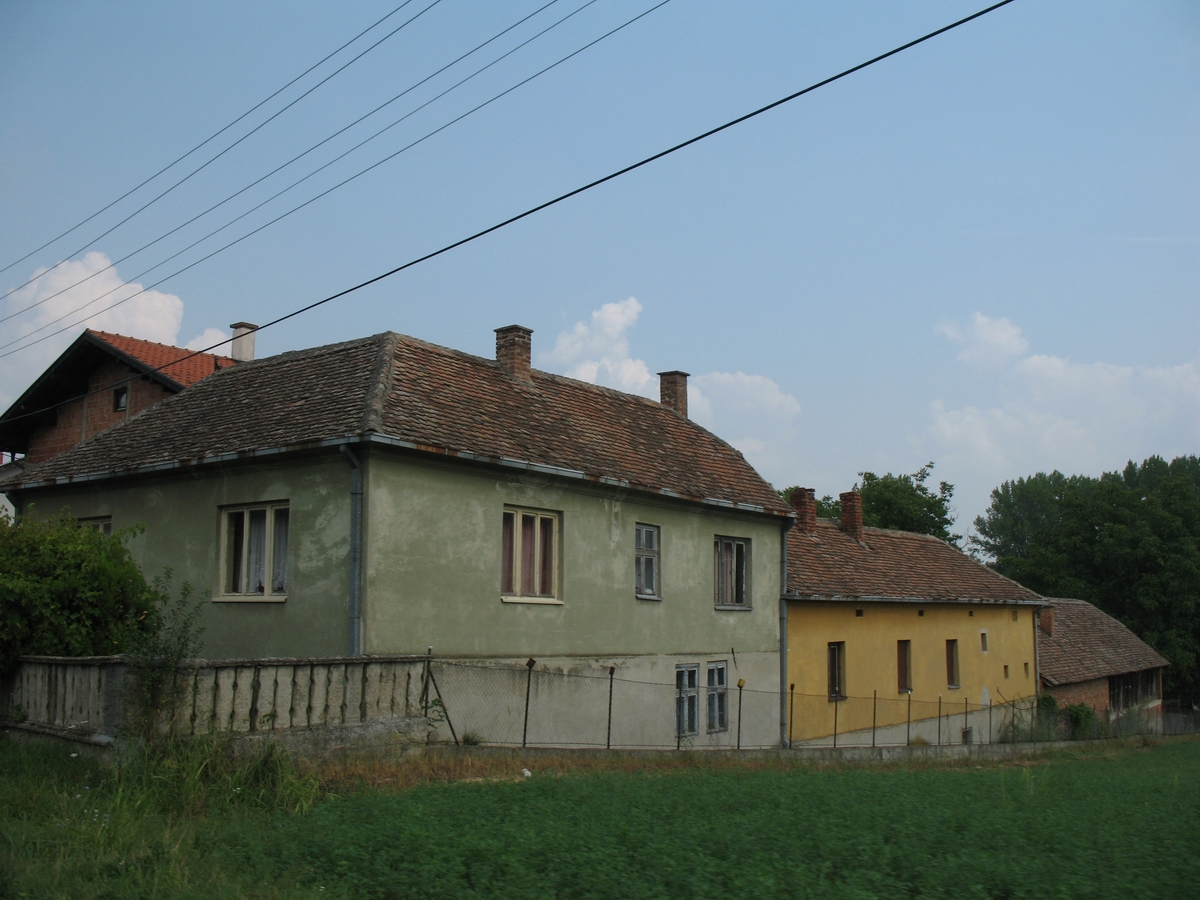 Đurakovo and Popovac village near Veliko Gradište, Serbia.